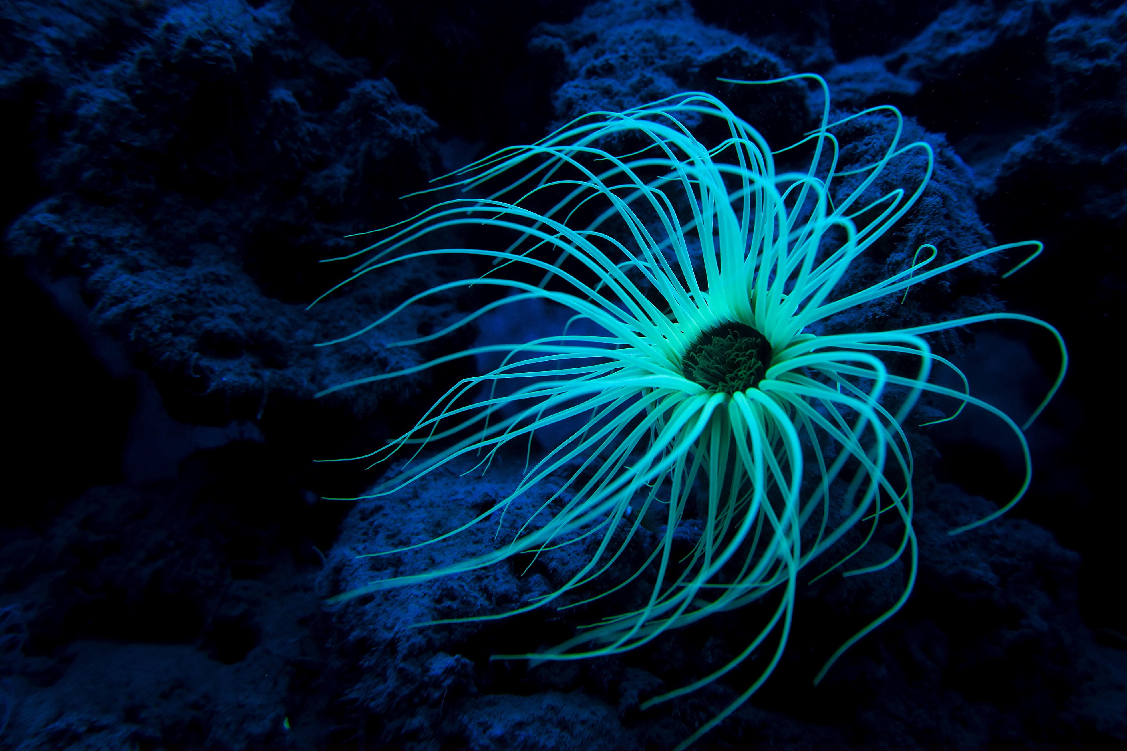 Cerianthus membranaceus Aquarium museum ARAGO (Banyuls sur mer) France